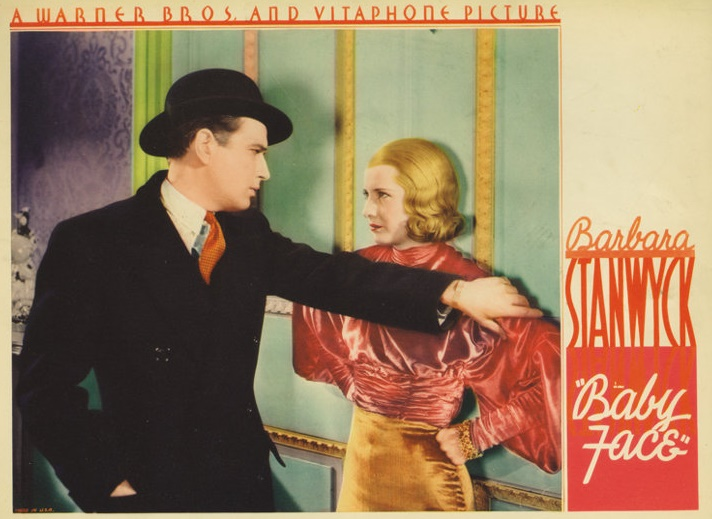 Lobby card for the American drama film Baby Face (1933)